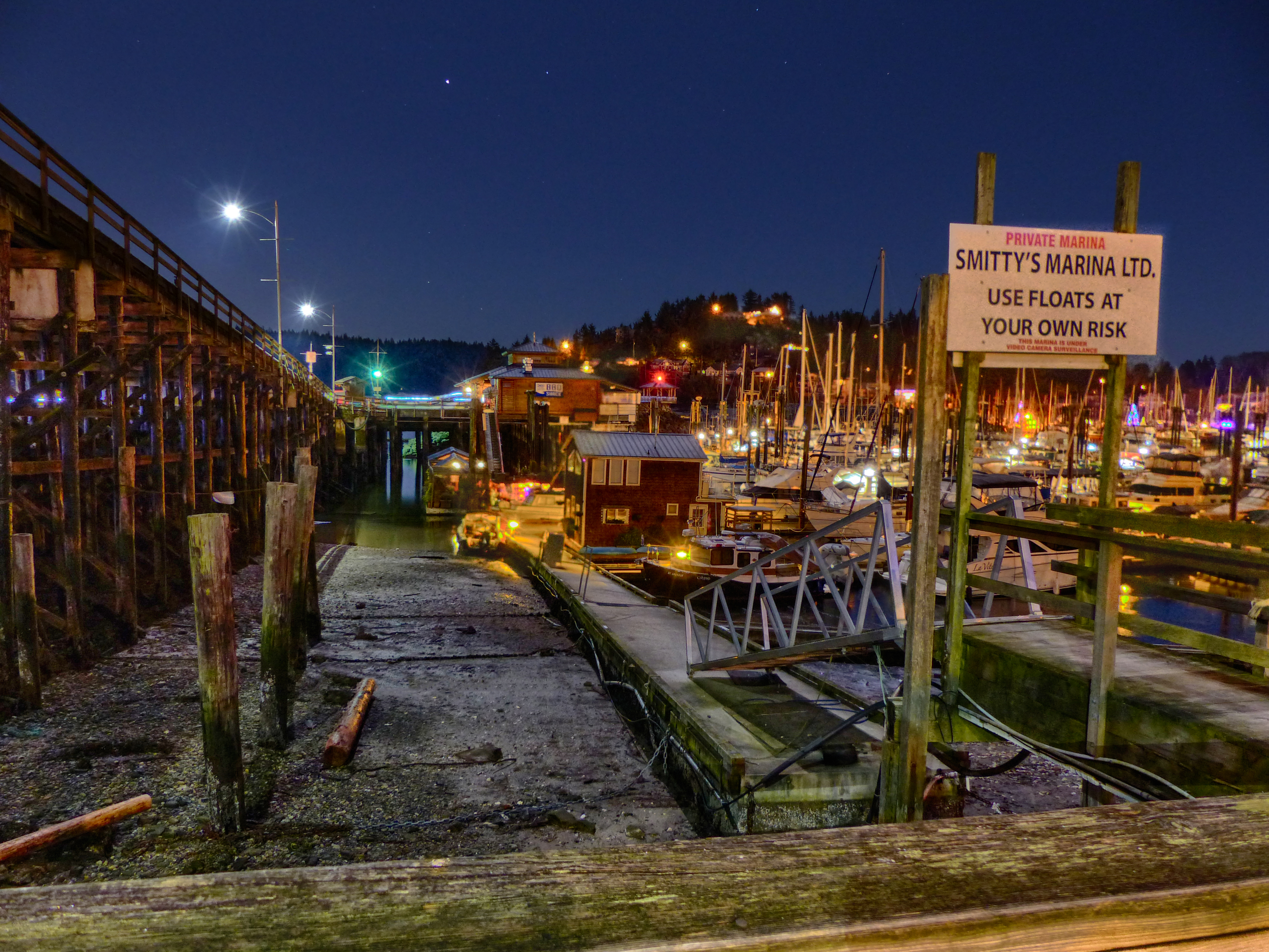 Gibsons Harbour at low tide.